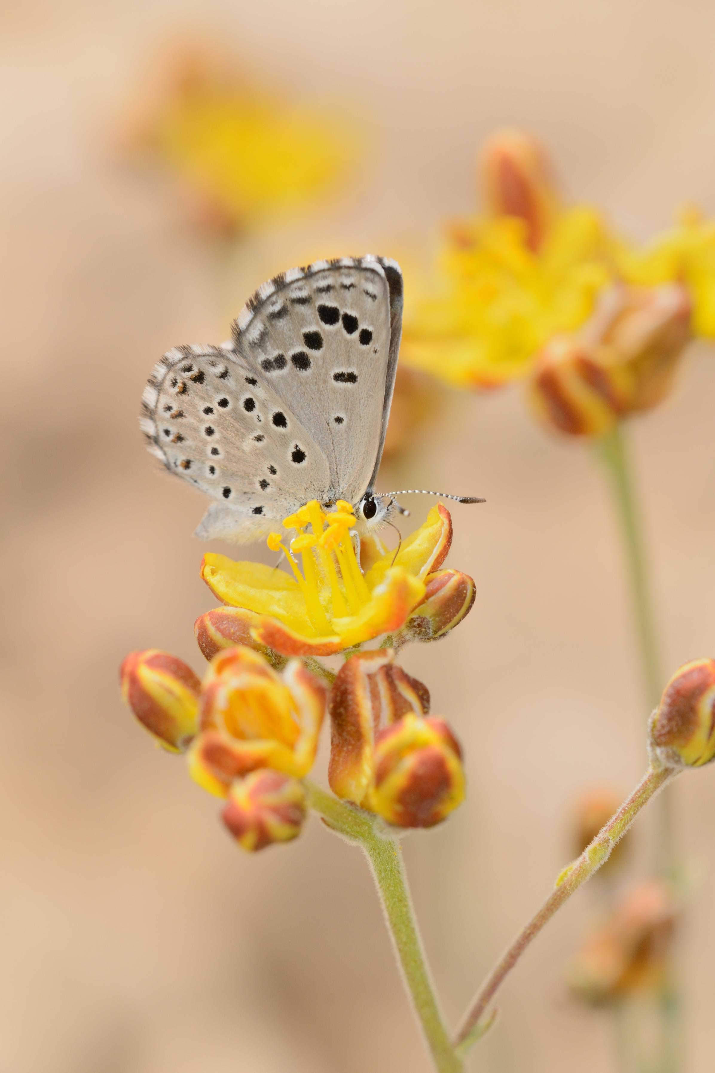 Pseudophilotes abencerragus nabateus Graves 1925, foraging on Haplophyllum poorei, Nahal Eliav, Negev Mountains, Israel, April 16, 2014.